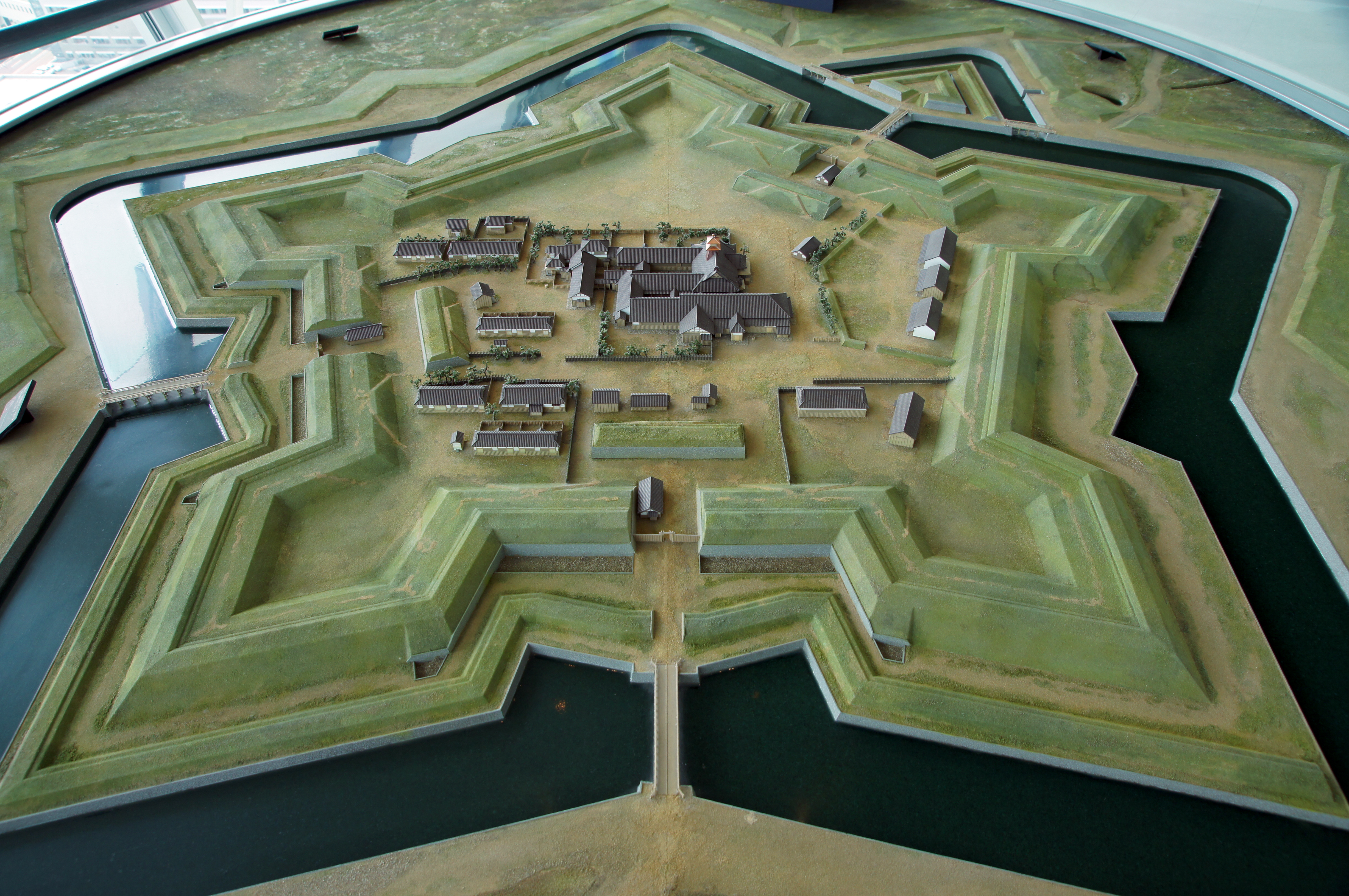 Goryōkaku in Hakodate, Hokkaido prefecture, Japan